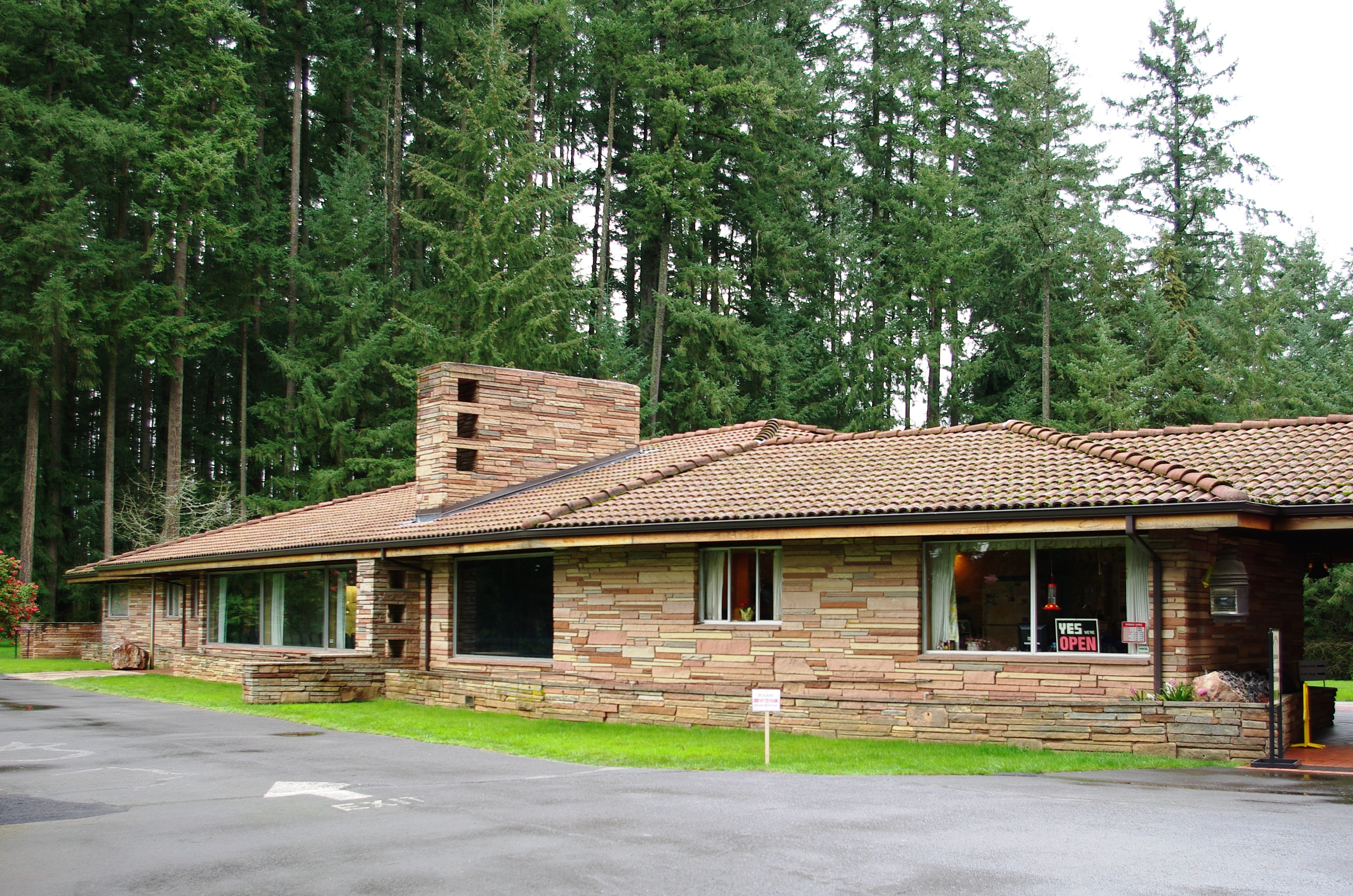 Richard and Helen Rice House, and Rice NW Museum of Rocks & Minerals.